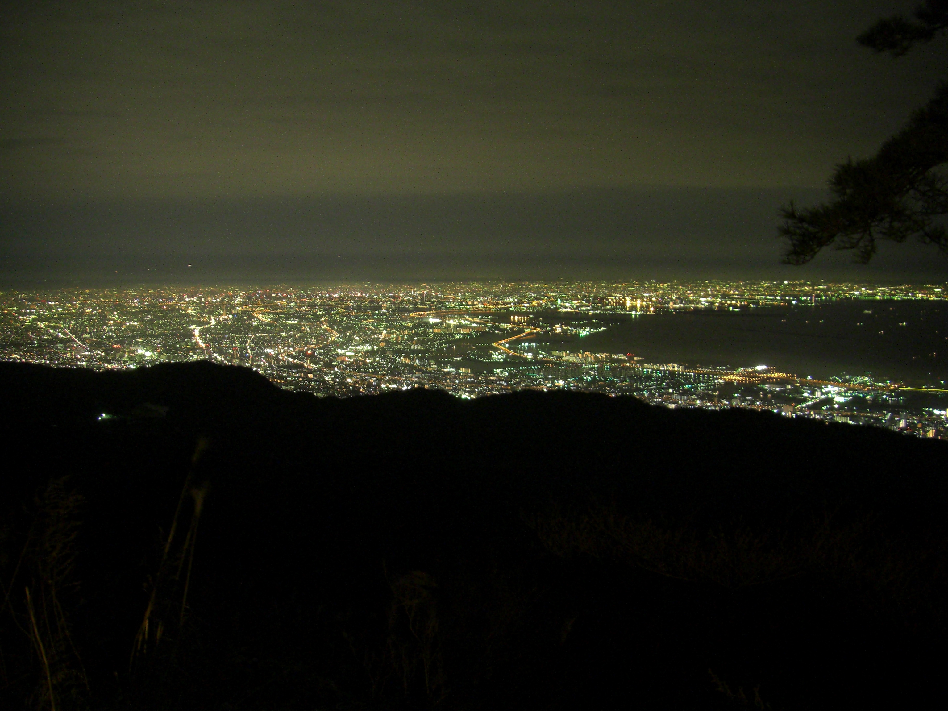 Night View from Mt. Rokko (Kobe, Hyogo, Japan)